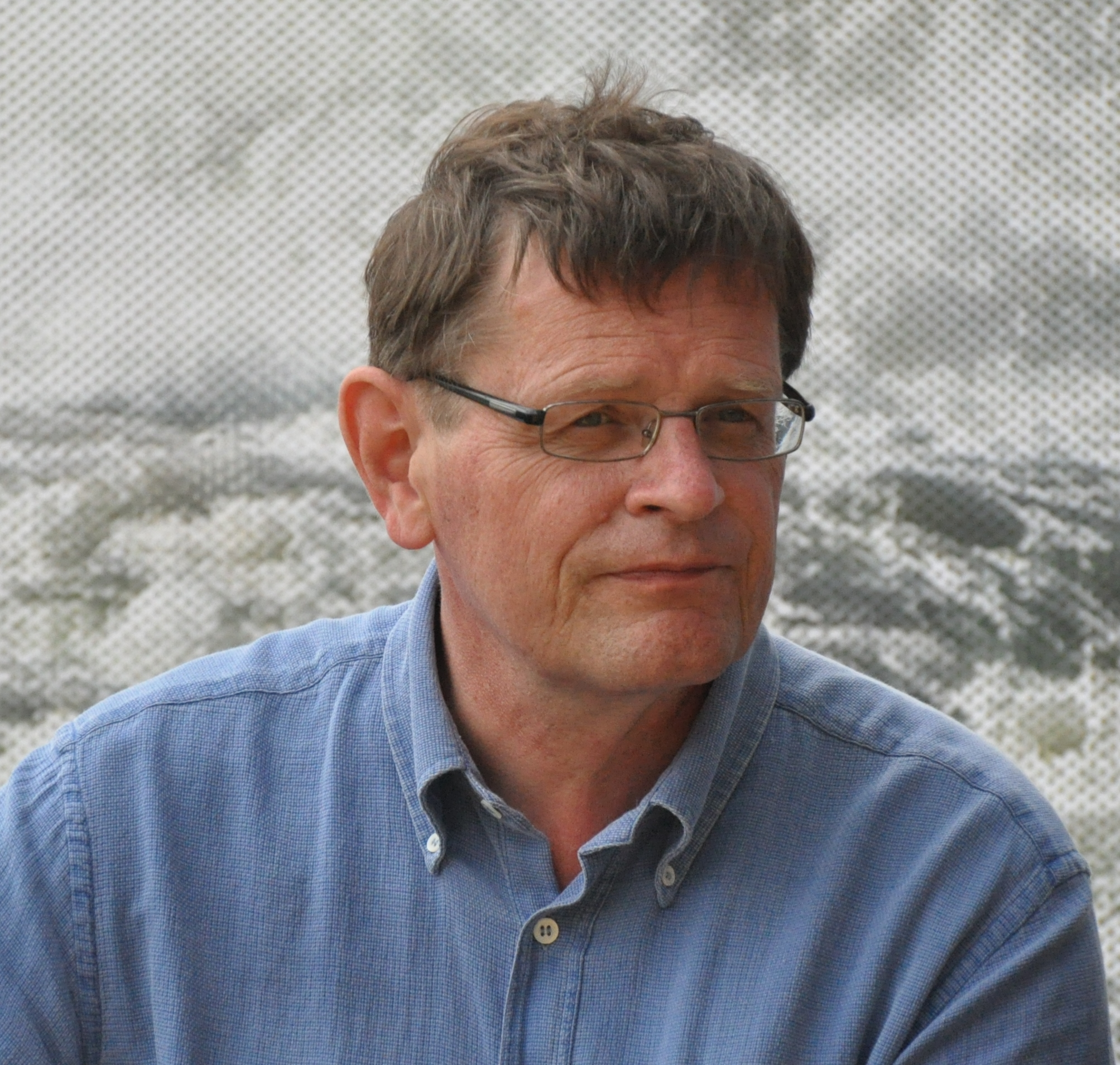 Finnish priest and city councillor of Helsinki Olli Valtonen at SuomiAreena 2010 in Pori.